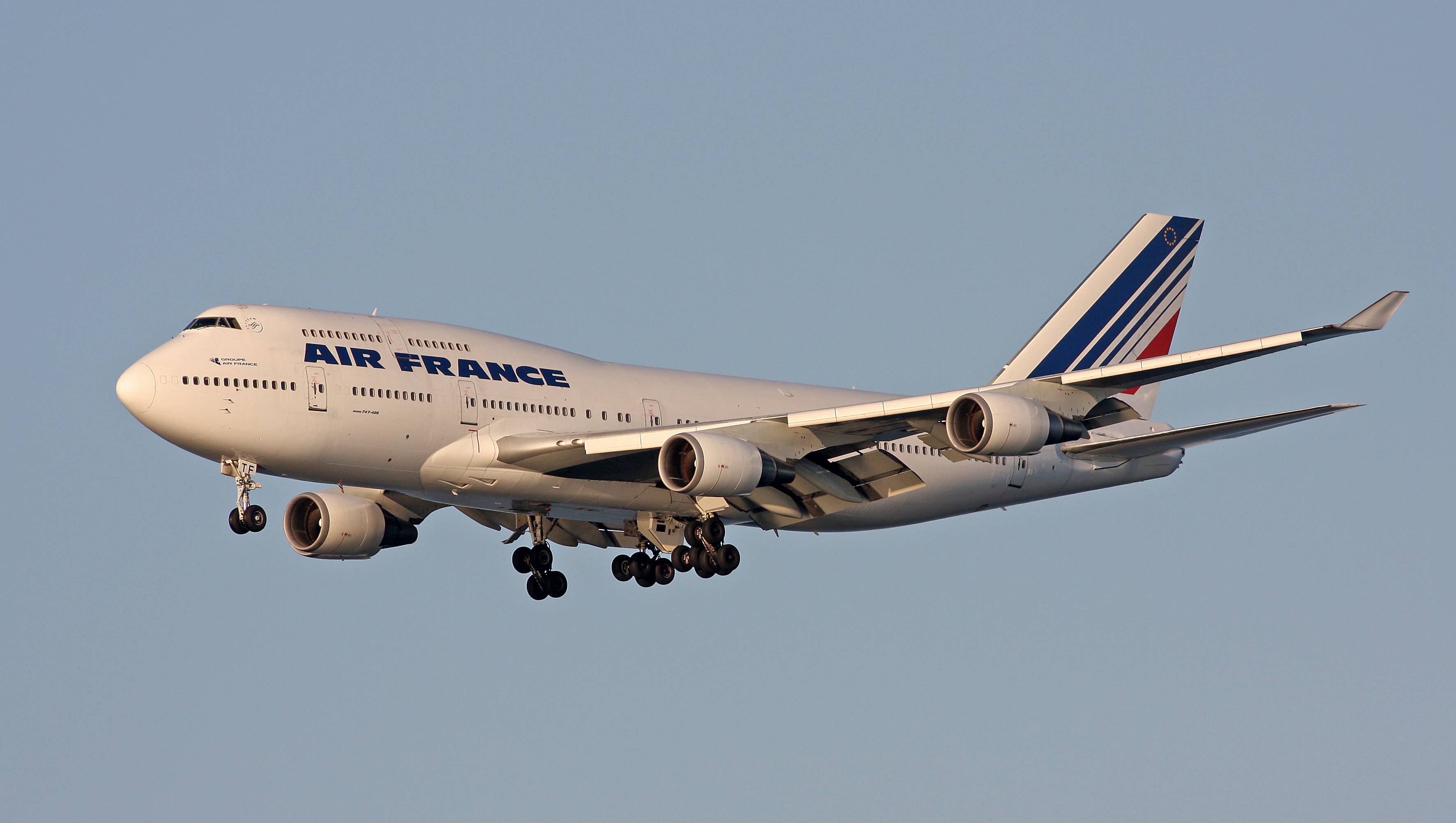 Air France Boeing 747 F-GTIF arrives at Logan International Airport, Boston, Massachusetts USA